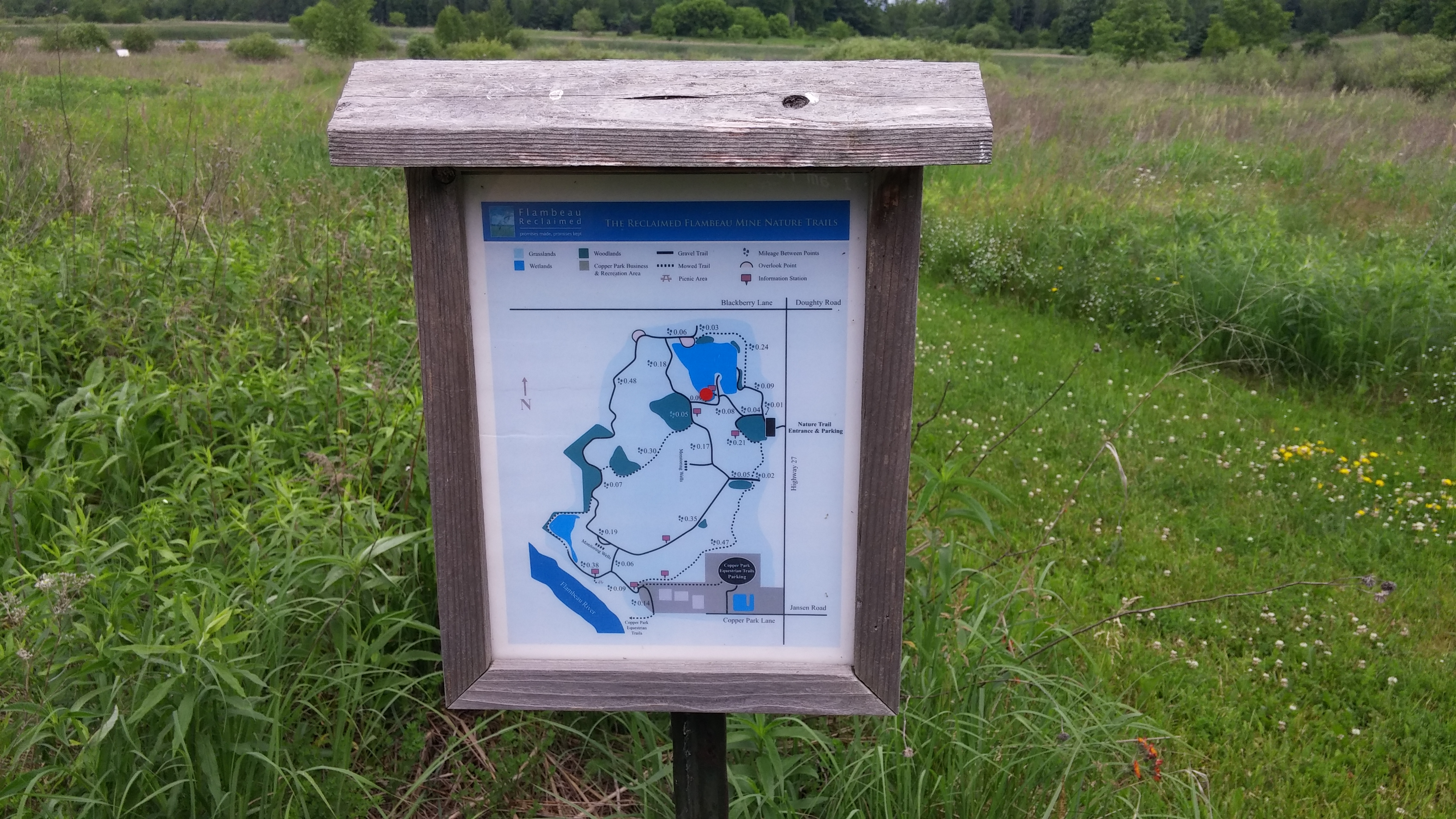 Flambeau Mine Map Take on June 18, 2016 in Ladysmith, WI, USA